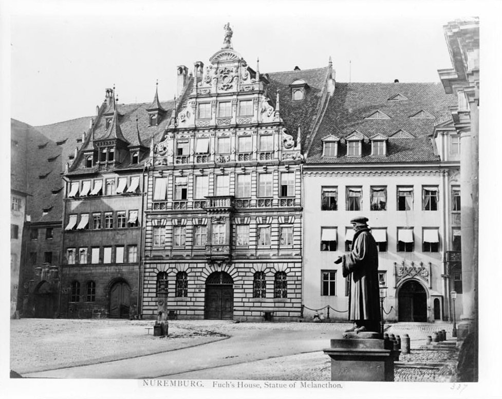 Nuremburg. Fuch's House, Statue of Melancthon.